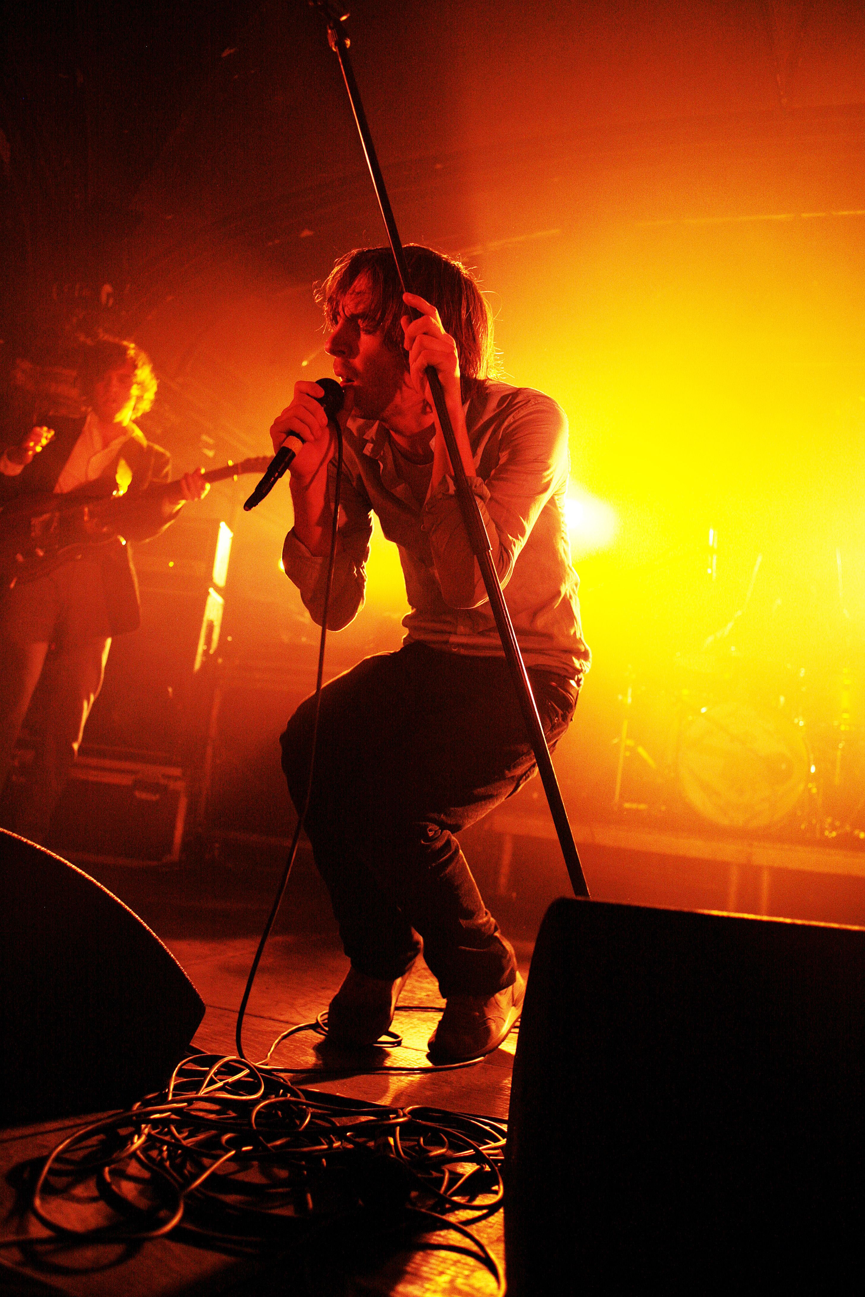 Thomas Mars, Phoenix